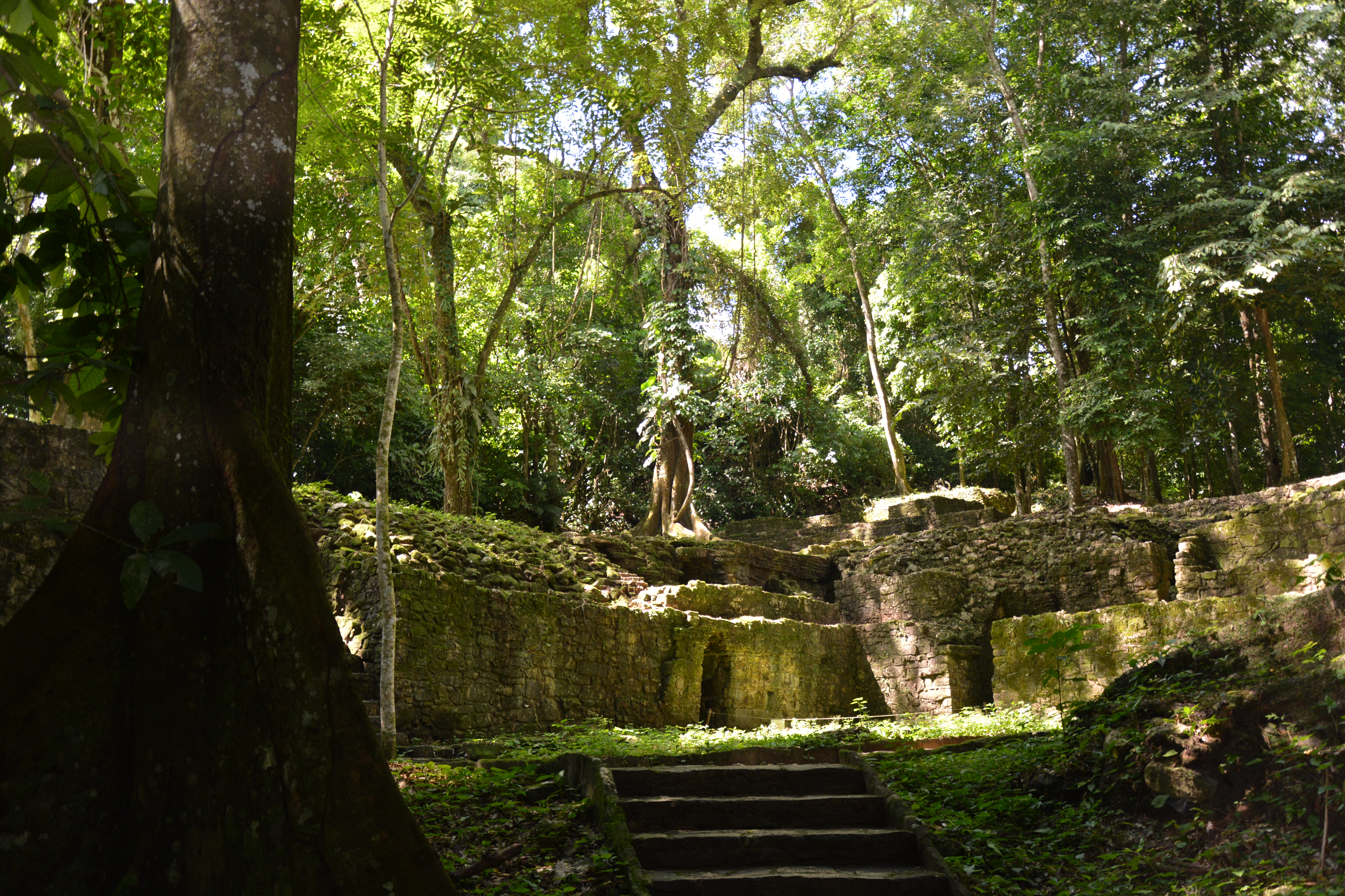 Group I at Palenque, Mexico